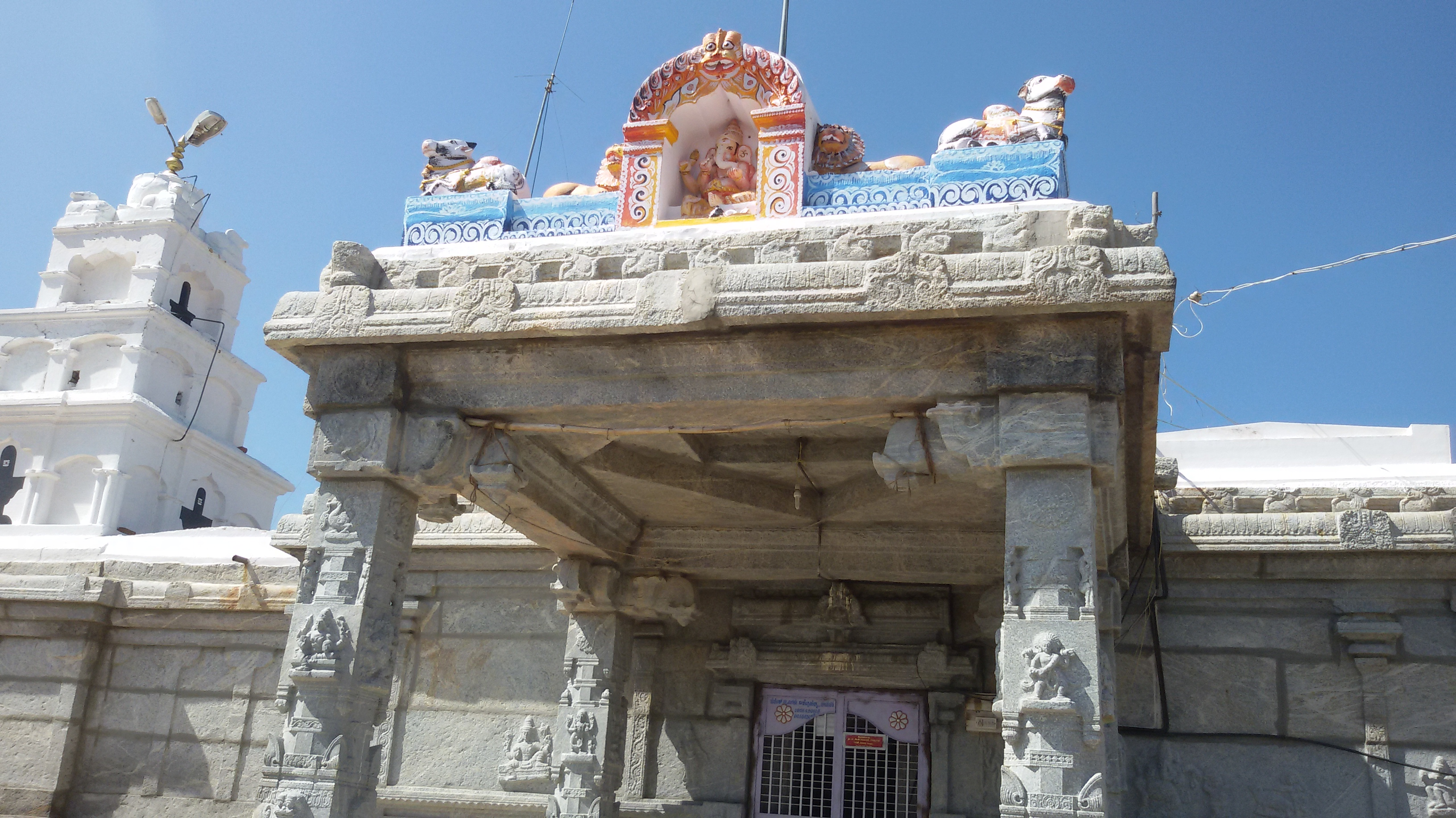 Located at nallaralahalli